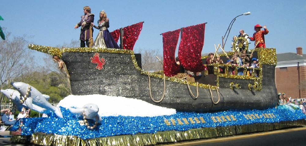 The Spanish Krewe's float, in the 2008 Springtime Tallahassee parade.